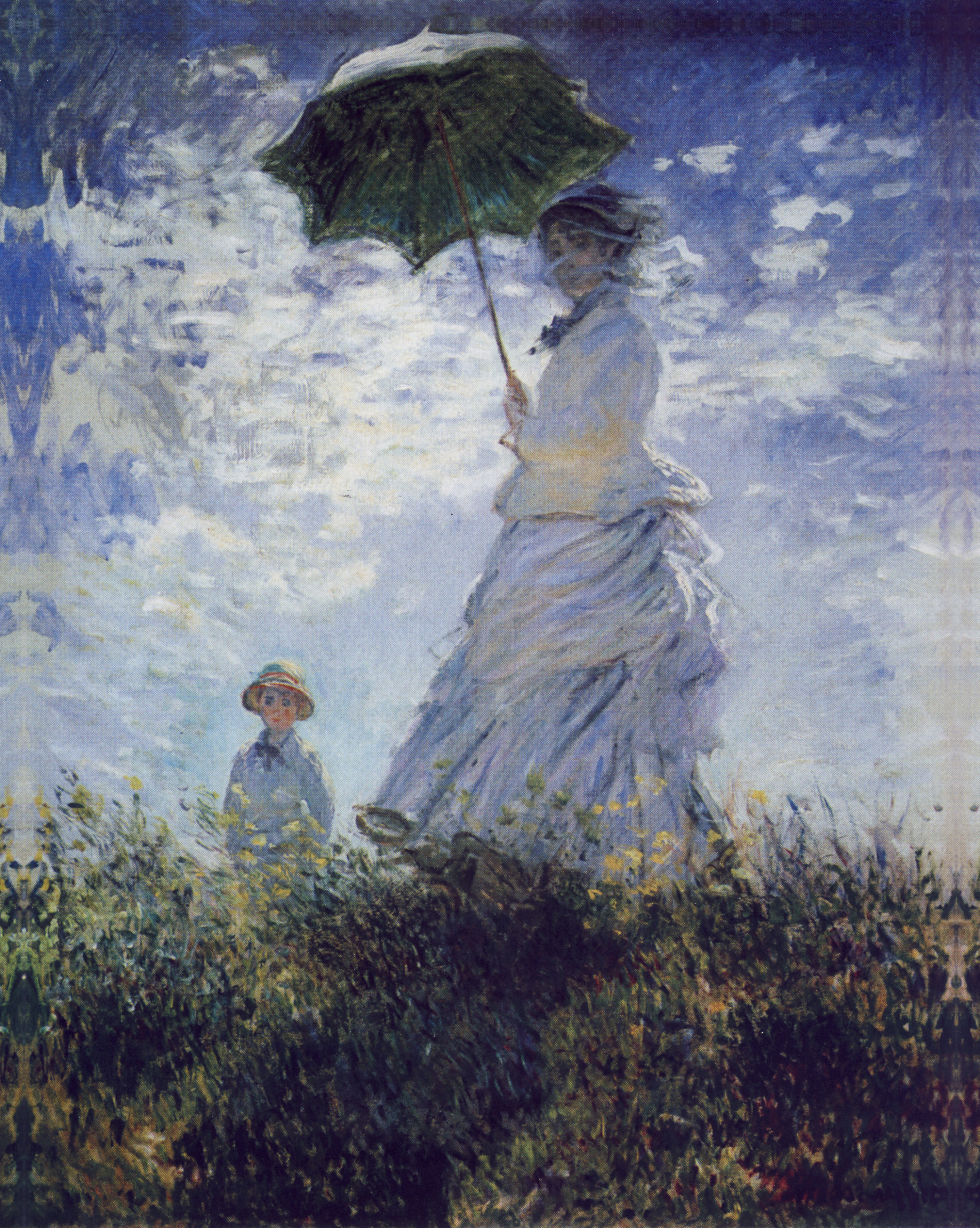 "A Woman with umbrella"(Painters wife with son) 1875r